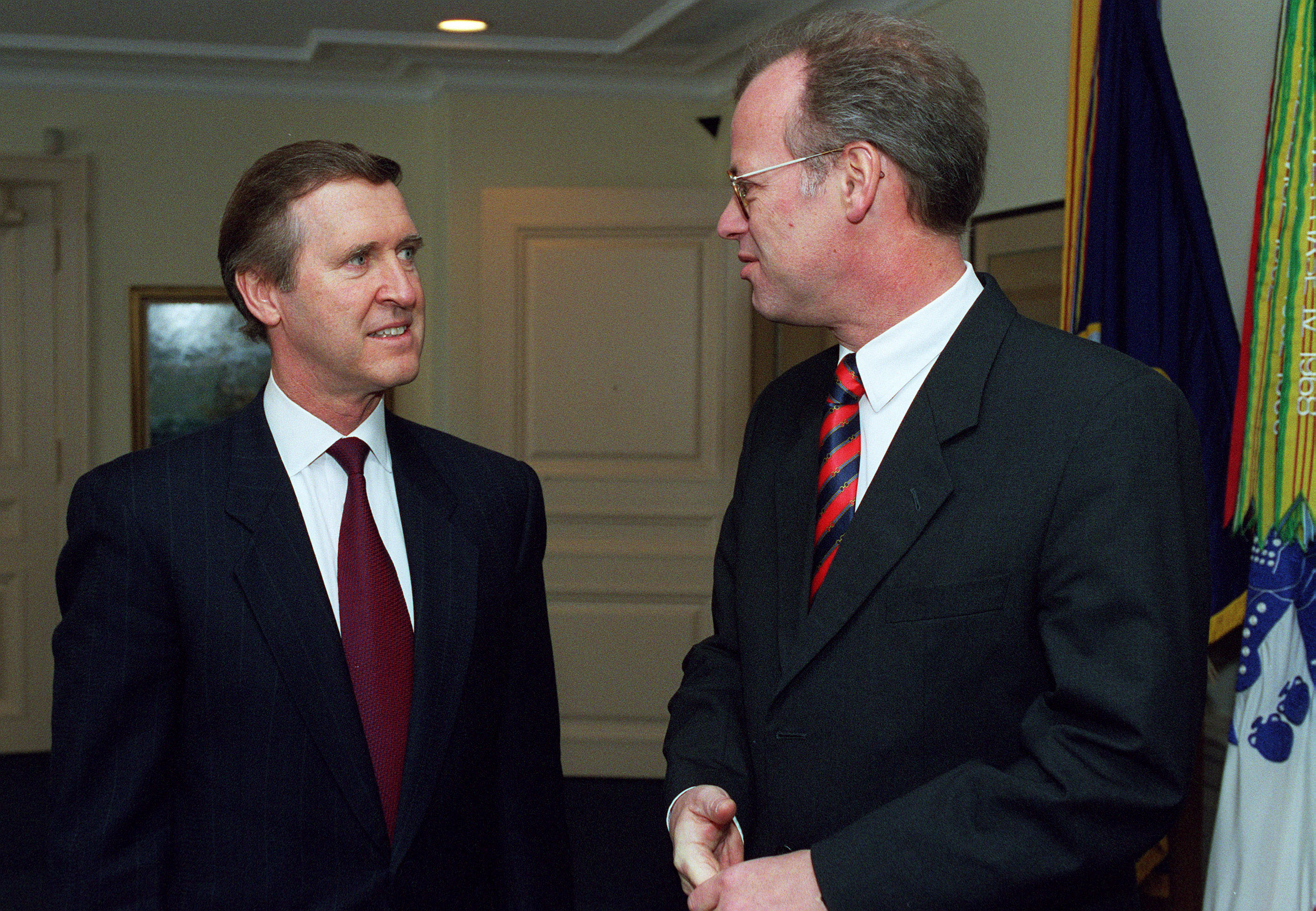 Secretary of Defense William Cohen (left) talks with visiting German Defense Minister Rudolf Scharping in the Pentagon, Nov. 24, 1998.